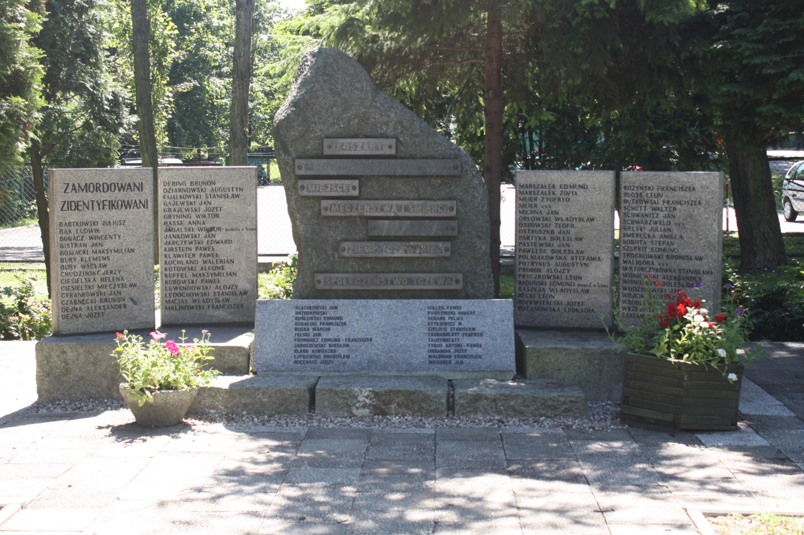 Tczew